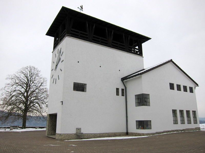 Protestant Church in Birmenstorf, Switzerland